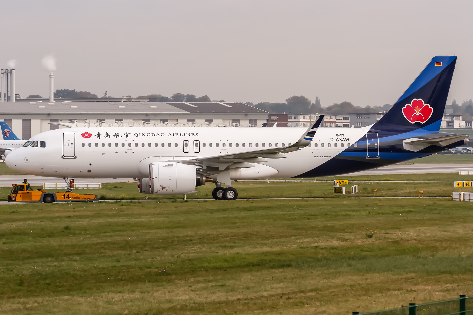 D-AXAW Qingdao Airlines Airbus A320-271N (will be B-302N) @ Airbus factory Hamburg Finkenwerder (XFW / EDHI) / 09.10.2018